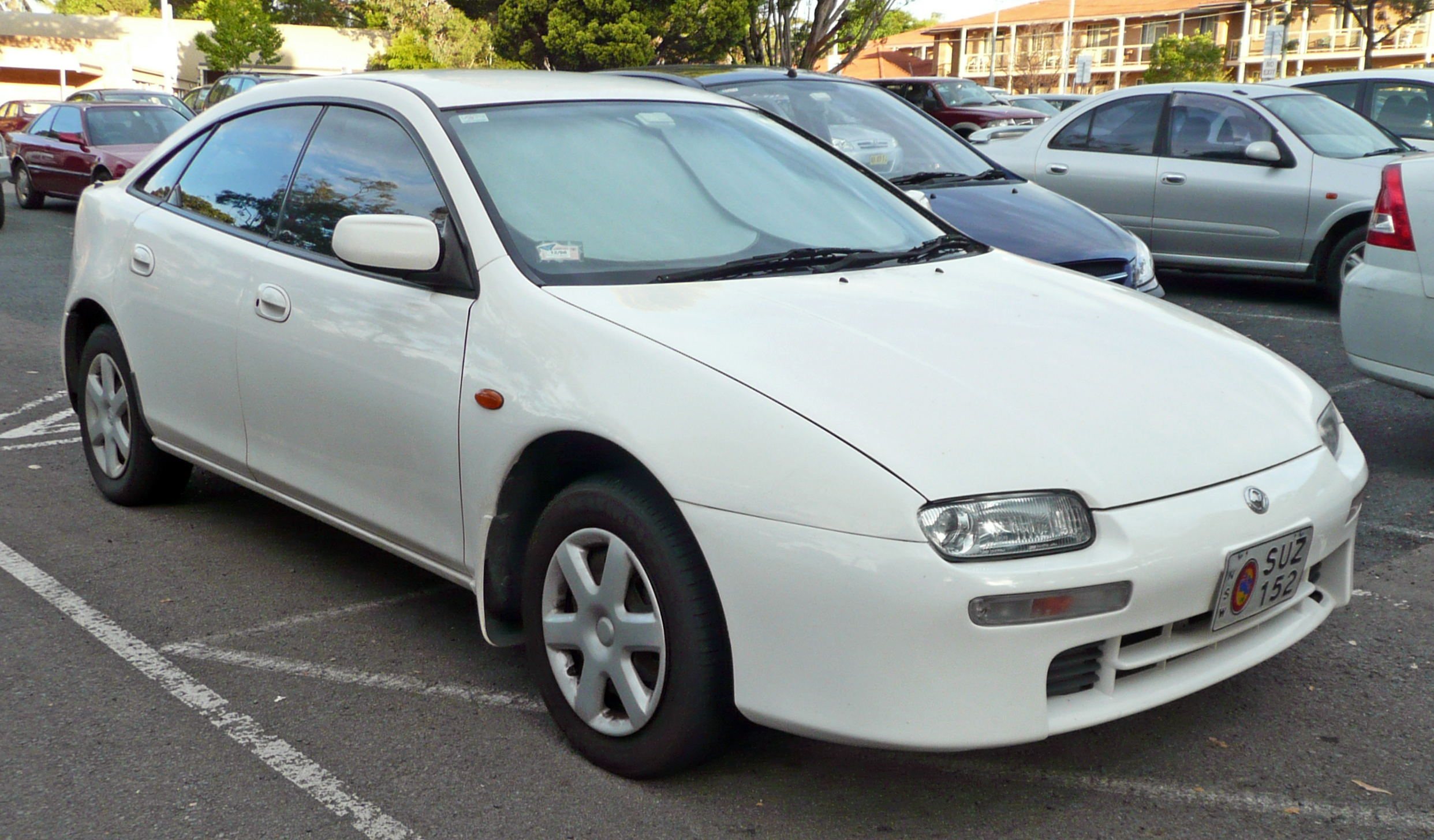 1997 Mazda 323 (BA Series 3) Astina 5-door hatchback. Photographed in Sutherland, New South Wales, Australia.